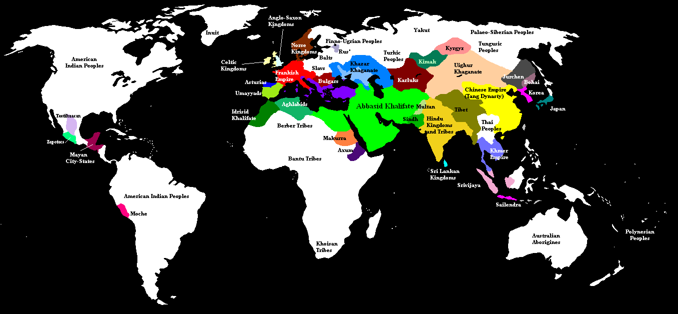 This map has been uploaded by Electionworld from to enable the Wikimedia Atlas of the World . Original uploader to was Briangotts, known as Briangotts at . Electionworld is not the creator of this map. Licensing information is below. Map showing the states of the world in 820 CE. Note that due to the large number of individual polities, some cultural groups (India, the Norse, Mayans, etc.) are shown as single units.